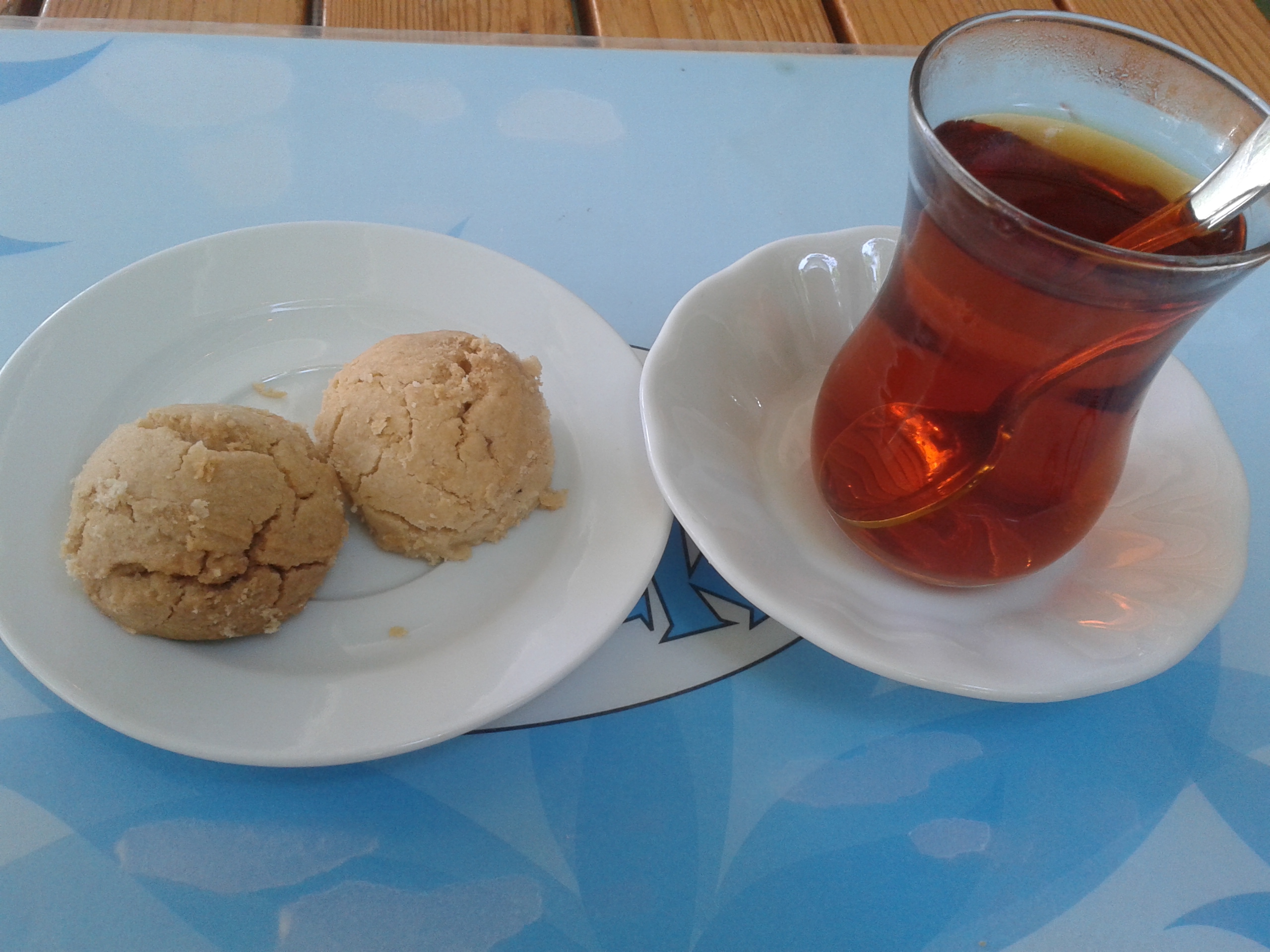 "Un kurabiyesi" and "çay" in Turkey